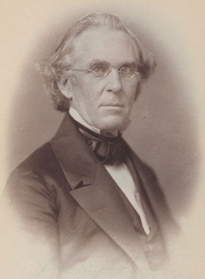 Albert G. Talbott, Representative from Kentucky, Thirty-fifth Congress, half-length portrait